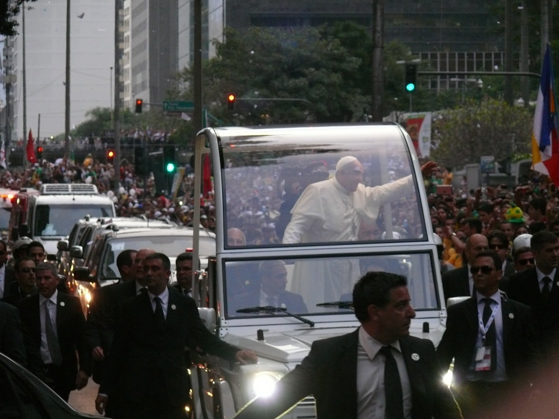 The 2013 World Youth Day in Rio de Janeiro (Brésil).